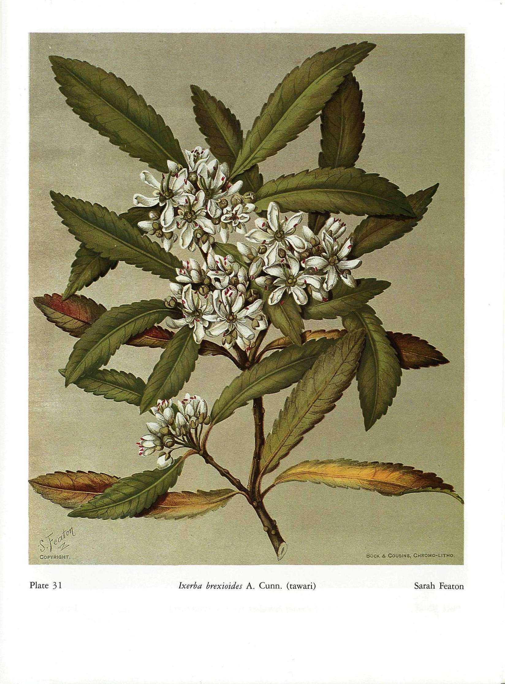 Ixerba brexioides by Sarah Featon (1848-1927) from The Art Album of New Zealand Flora